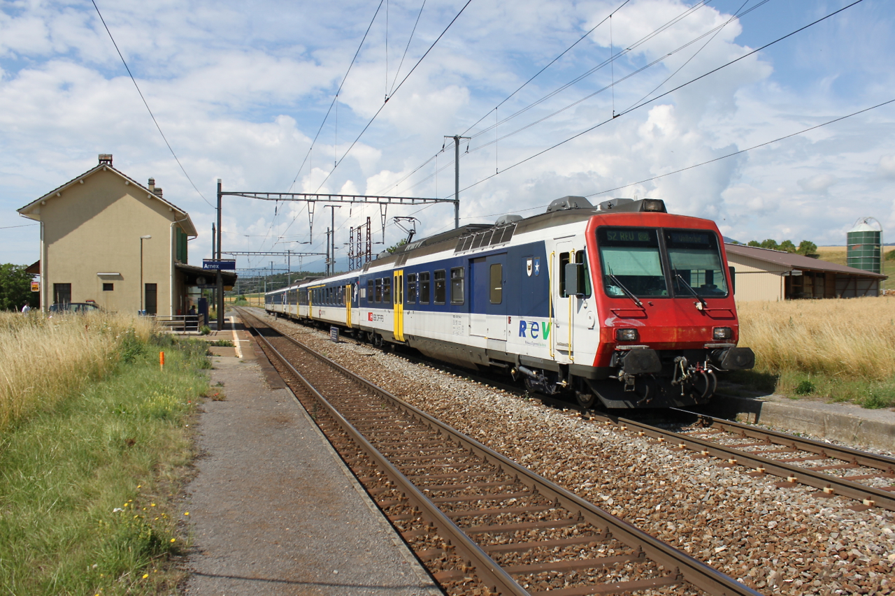 SBB CFF FFS RBDe 560 014-3 at Arnex.